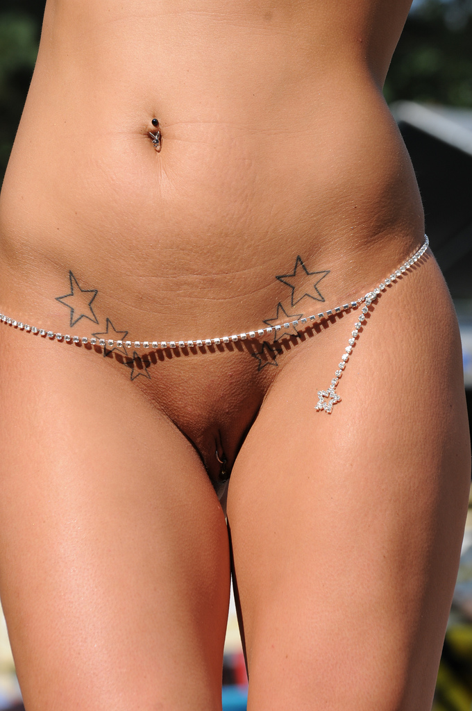 Tattoos and body piercing